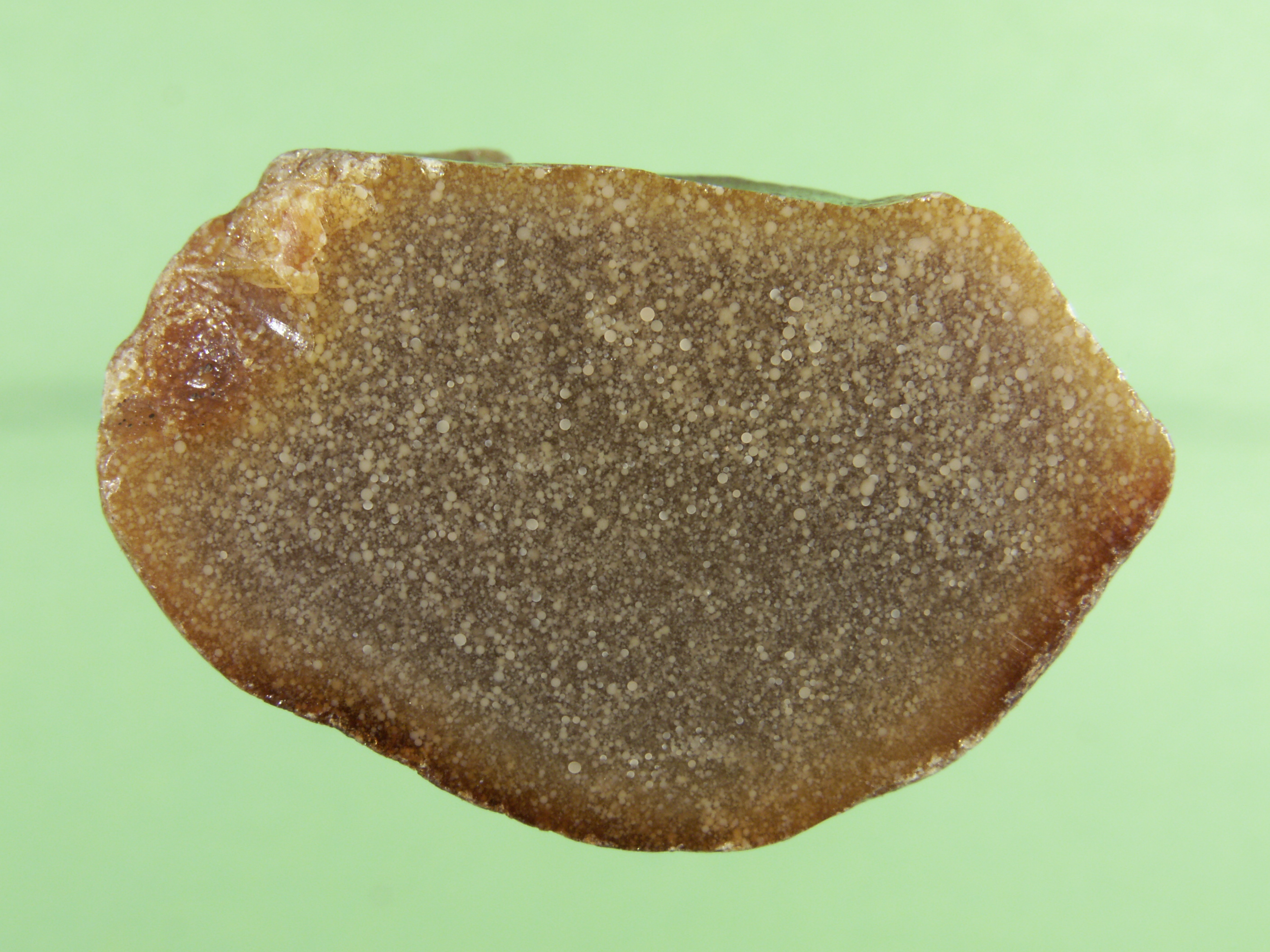 Amber from Bitterfeld, durglessite